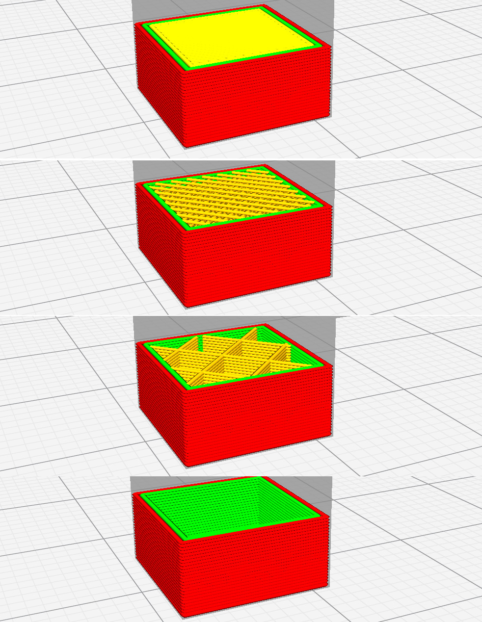 Different levels of infill denisity, as generated by Cura software